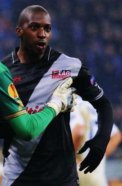 Younousse Sankharé